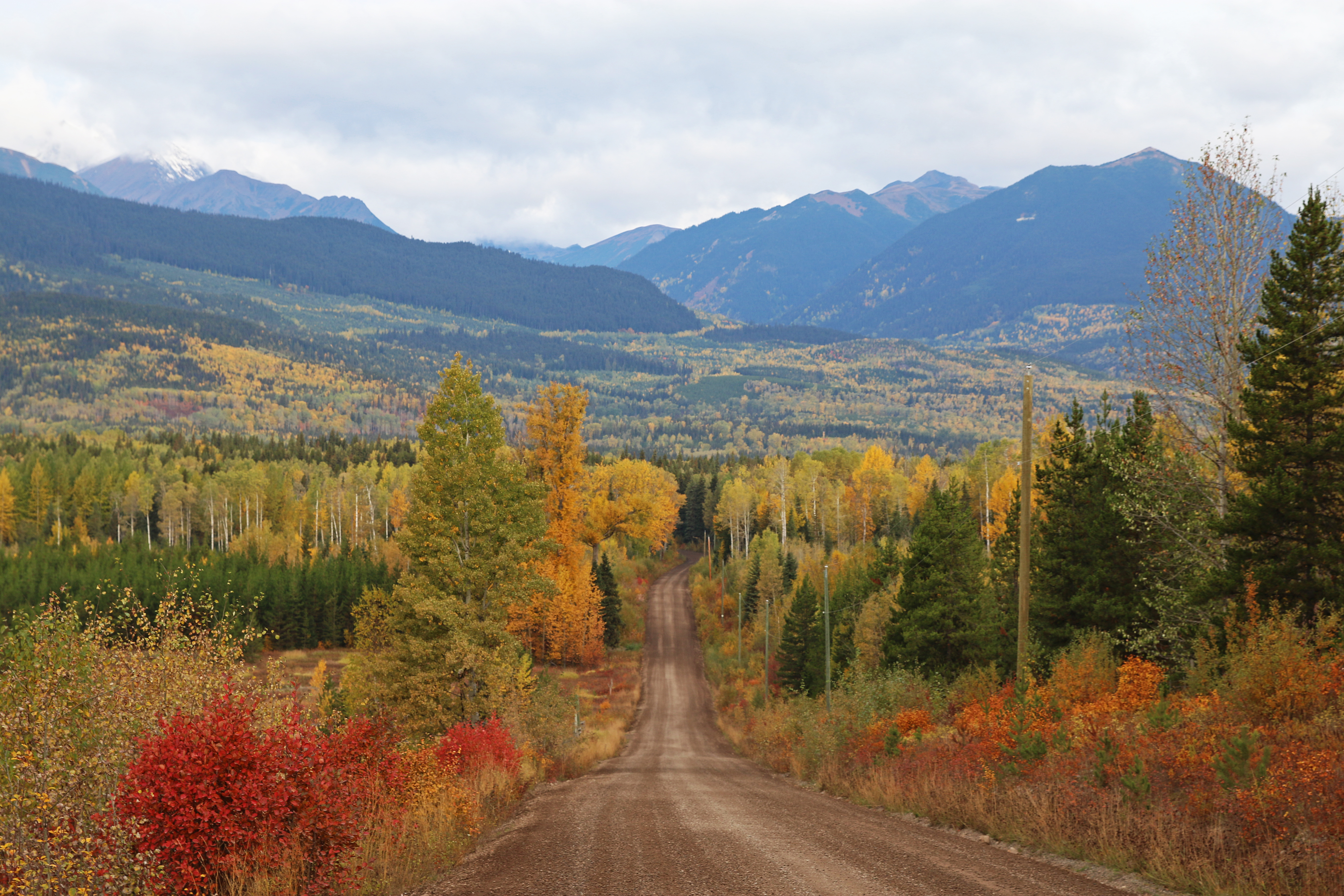 Telkwa High Road about 3.5 km southeast of Witset, British Columbia, Canada